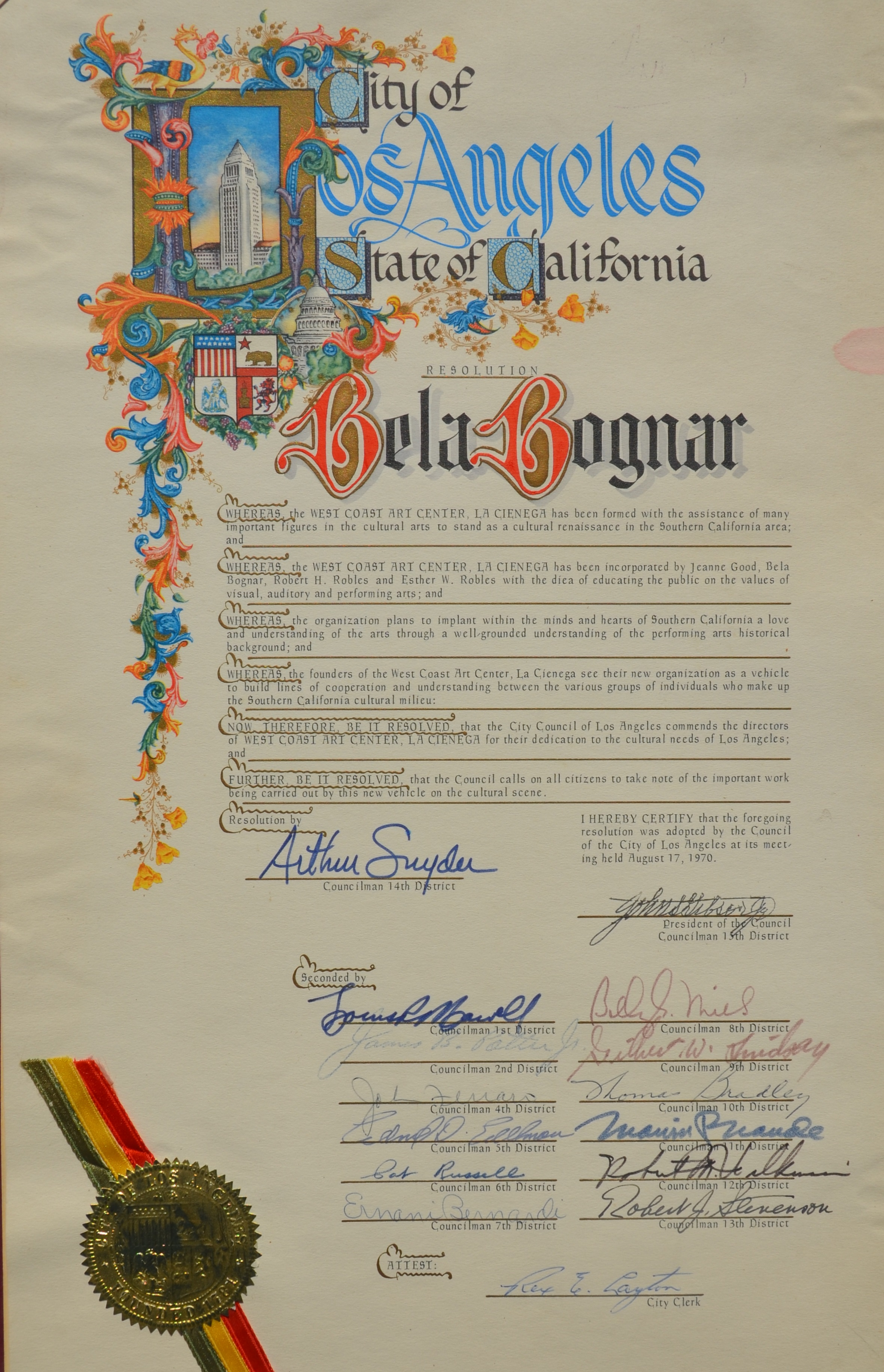 Resolution adopted by the Los Angeles City Council to recognize the West Coast Art Center founders Jeanne Good, Bela Bognar, Robert H. Robles and Esther W. Robles for their contributions to the Southern California cultural scene.